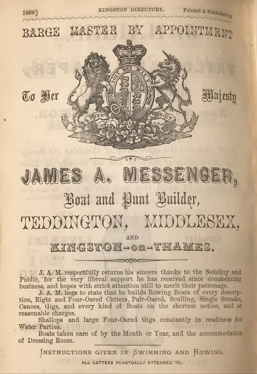 James A. Messenger advertisement in the Kingston Directory of 1868 asserting he was Barge Master to Queen Victoria on the Thames. He also asserts his skill and a boat and punt maker, and a coach of swimming and rowing.l